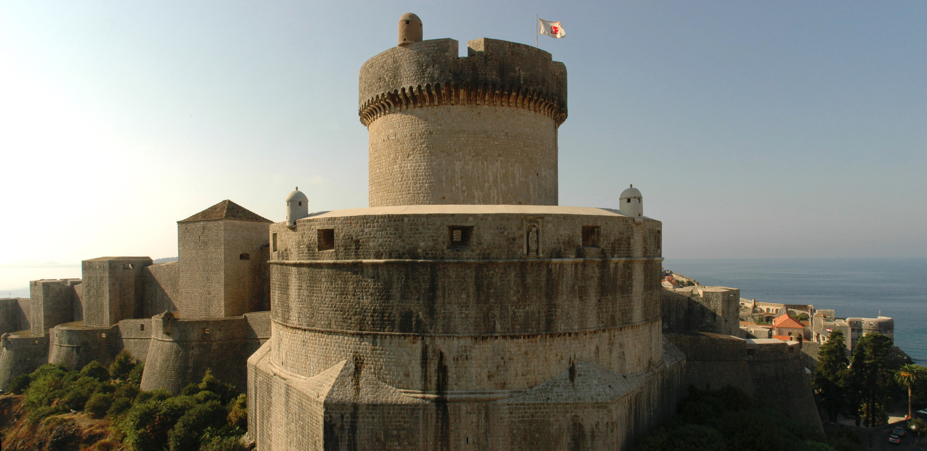 The Walls of Dubrovnik with the Minčeta Tower. Dubrovnik is the capitol of the Dubrovnik–Neretva County, in Croatia.